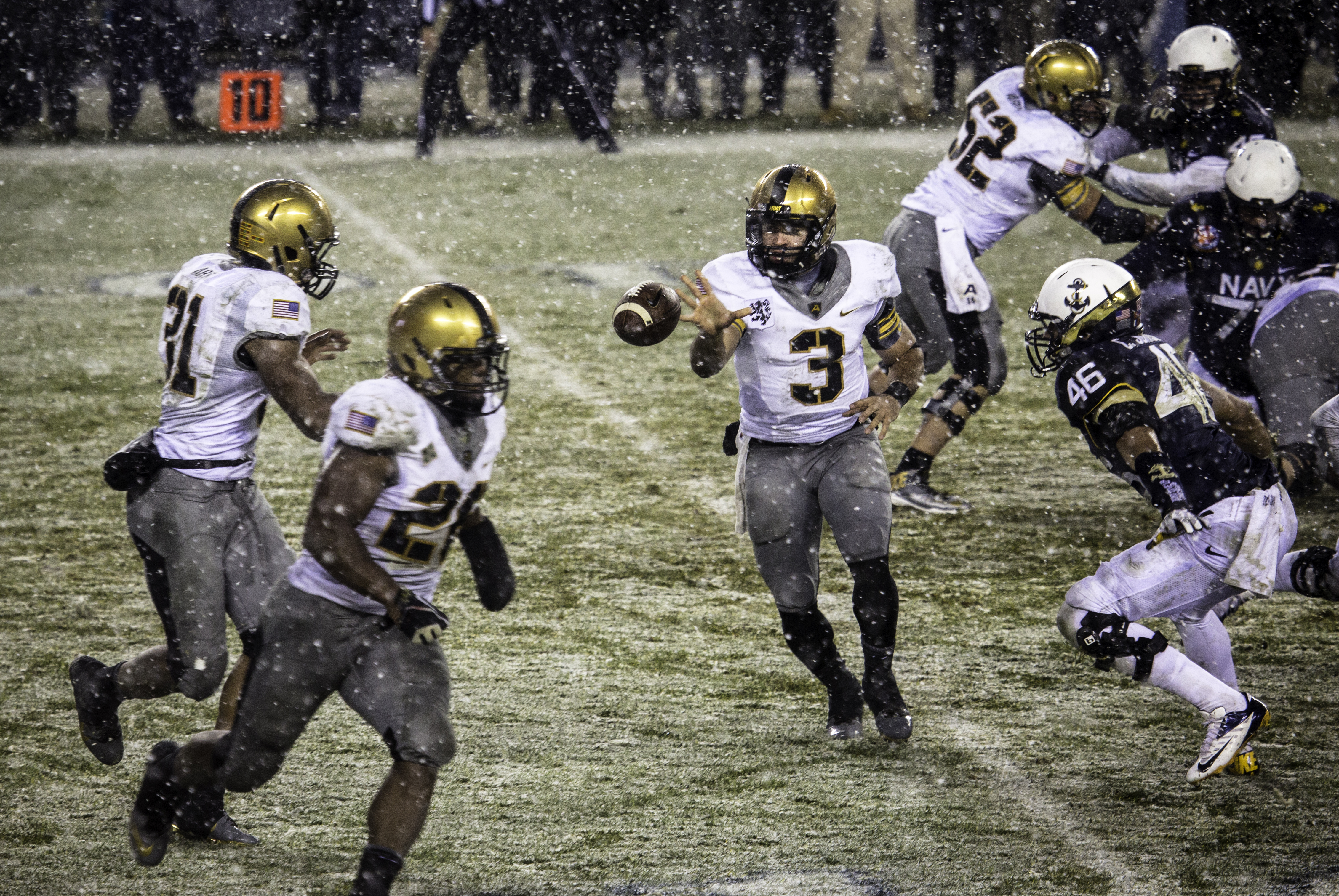 The quarterback for the Army Black Knights pitches the ball during the third quarter of the 2013 Army/Navy football game, Dec. 14, 2013, Lincoln Financial Field, Philadelphia. The Navy Midshipmen defeated the Army Black Knights with a score of 34-7. (U.S. Army photo by Spc. Philip Diab/Released) Unit: 55th Combat Camera DVIDS Tags: Philadelphia; Army Black Knights; Army football; snow; Black Knights; Army Navy football game; Lincoln Financial Field; Navy football; Navy; West Point; Blue Angels; Army; Navy Midshipmen; Americas game; Americas rivalry; Midshipen; Army vs Navy 2013